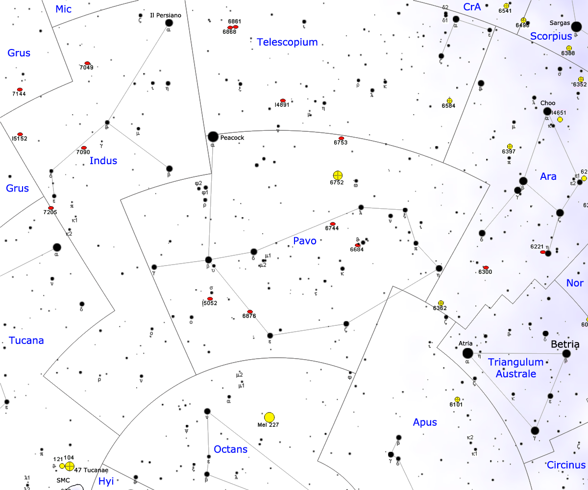 Map of Pavo